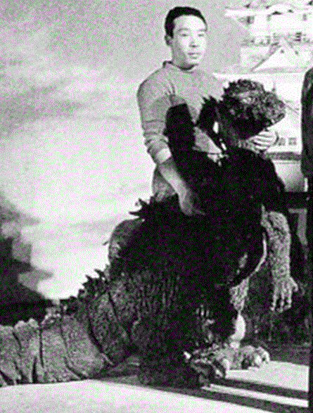 Behind the scenes photograph from the set of Godzilla Raids Again.